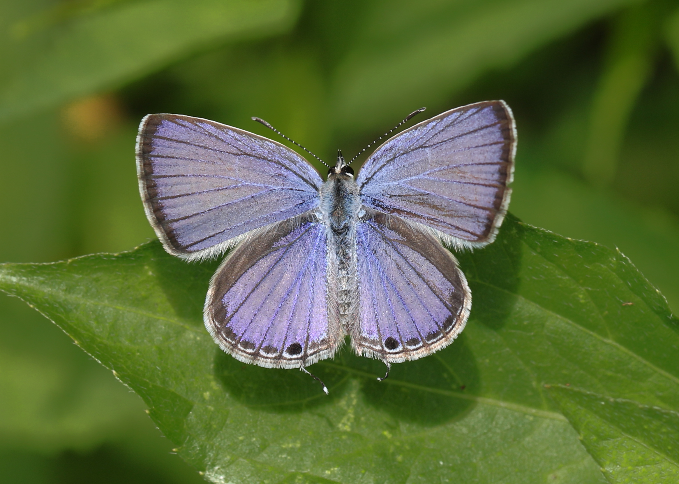 Chilades pandava pandava – Plains Cupid male butterfly upperside spotted at Kodagu, Karnataka